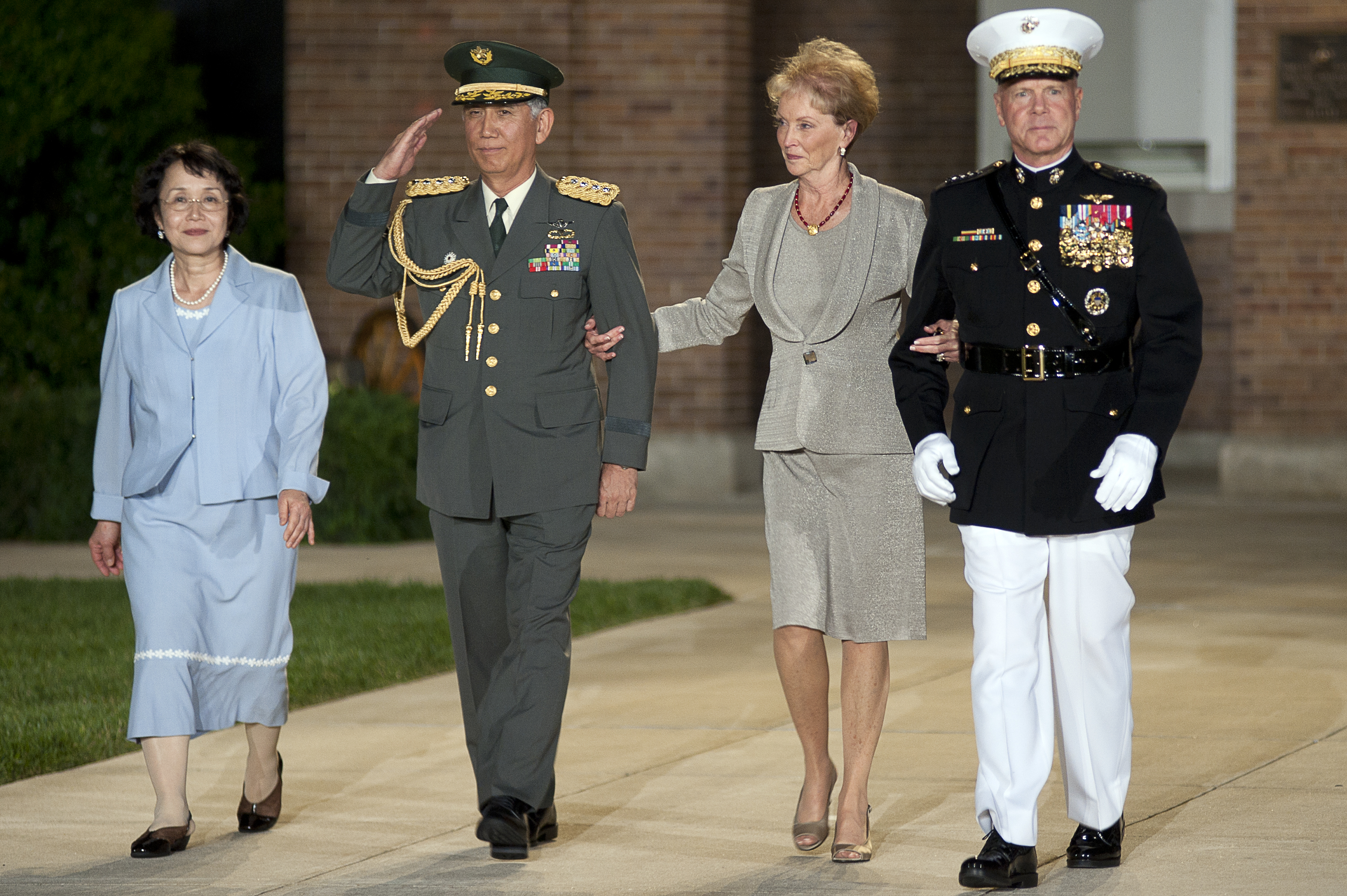 Gen. Eiji Kimizuka, chief of staff of the Japan Ground Self-Defense Force, and Gen. James F. Amos, commandant of the Marine Corps, walk down centerwalk with thier wives at the start of a Friday Evening Parade at Marine Barracks Washington May 25. Kimizuka was the guest of honor, while Amos was the hosting official of the parade.